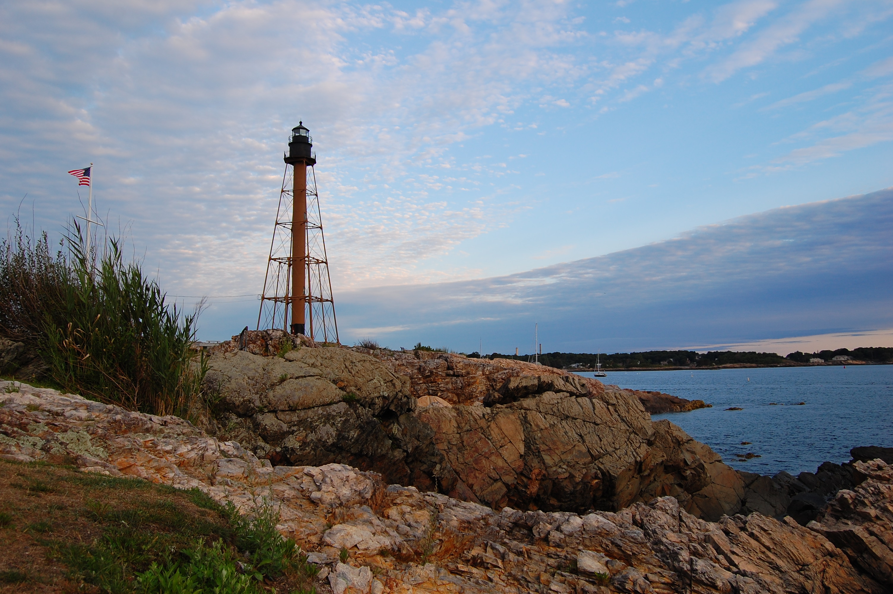 Marblehead Light overlooking Marblehead Harbor